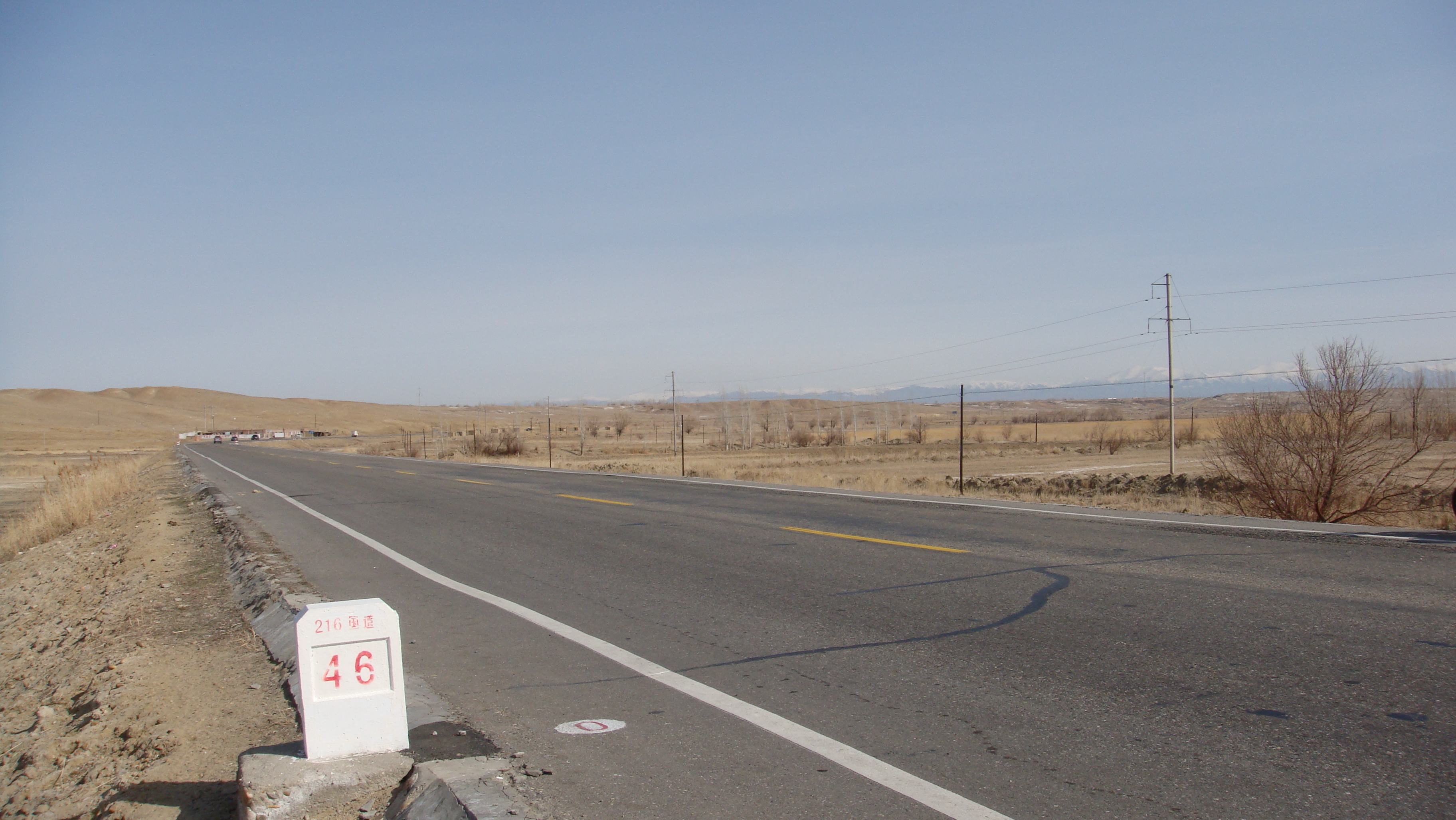 State Road 216 at 41 kilometer.